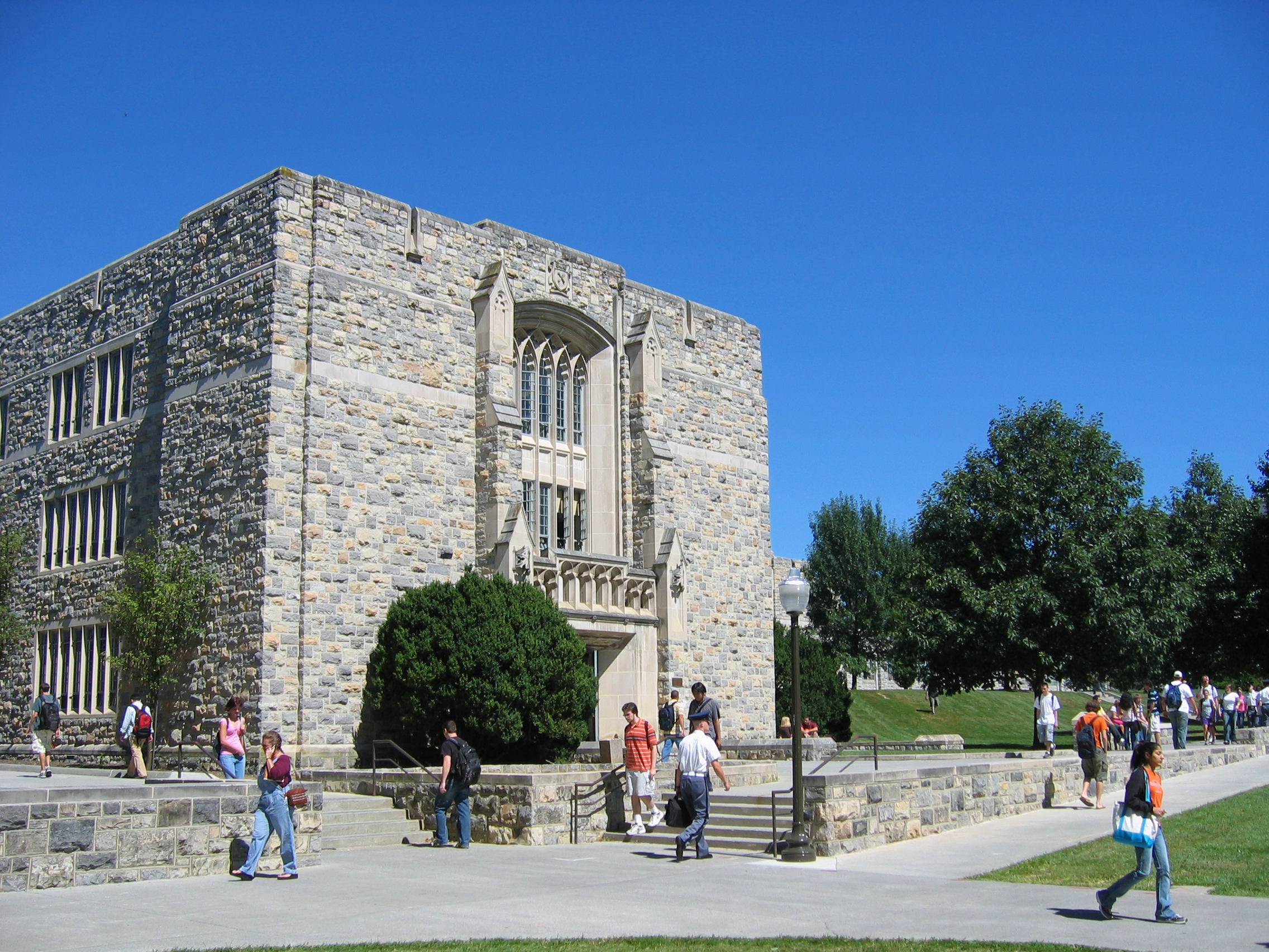 Norris Hall, Virginia Polytechnic Institute and State University (Virginia Tech).